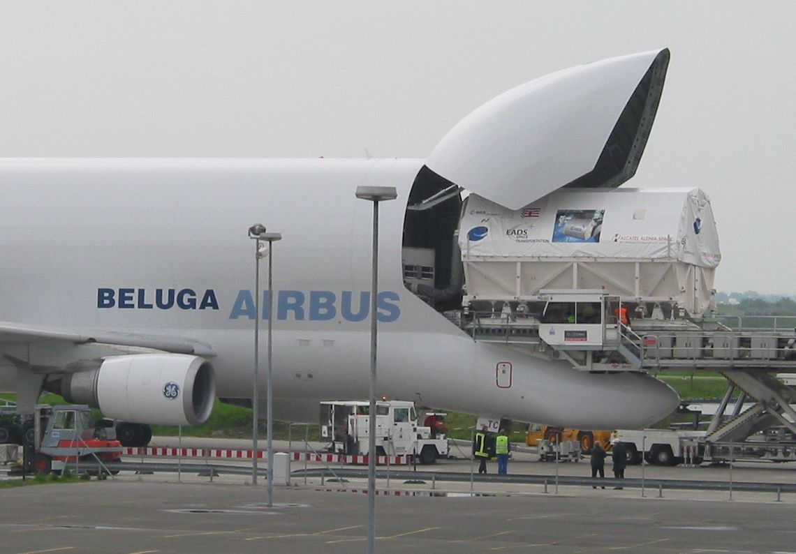 Columbus Module gets loaded in an Airbus-Beluga at Bremen airport.